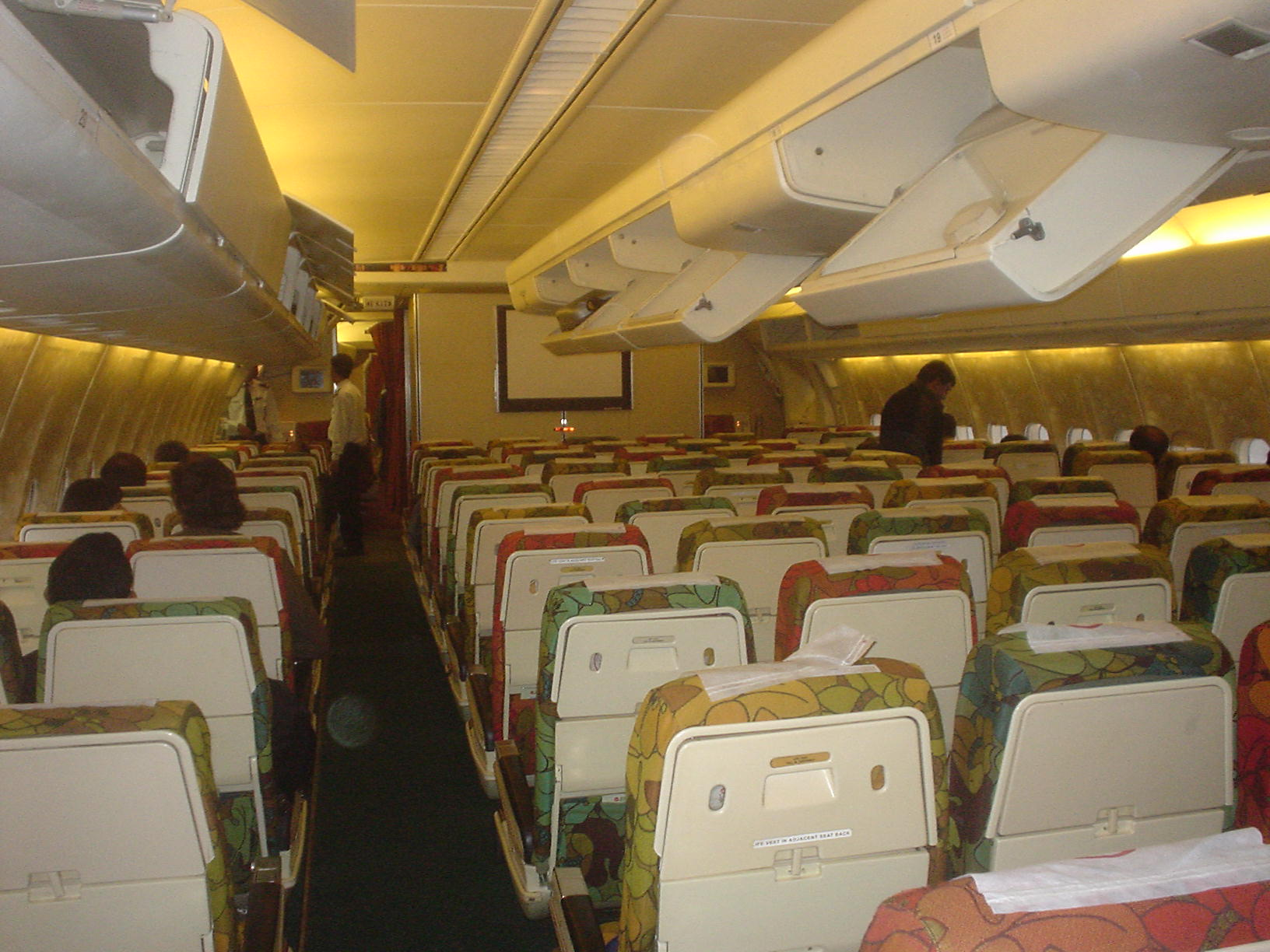 Biman Airlines DC10 Economy Class cabin on the route Hong Kong to Dhaka